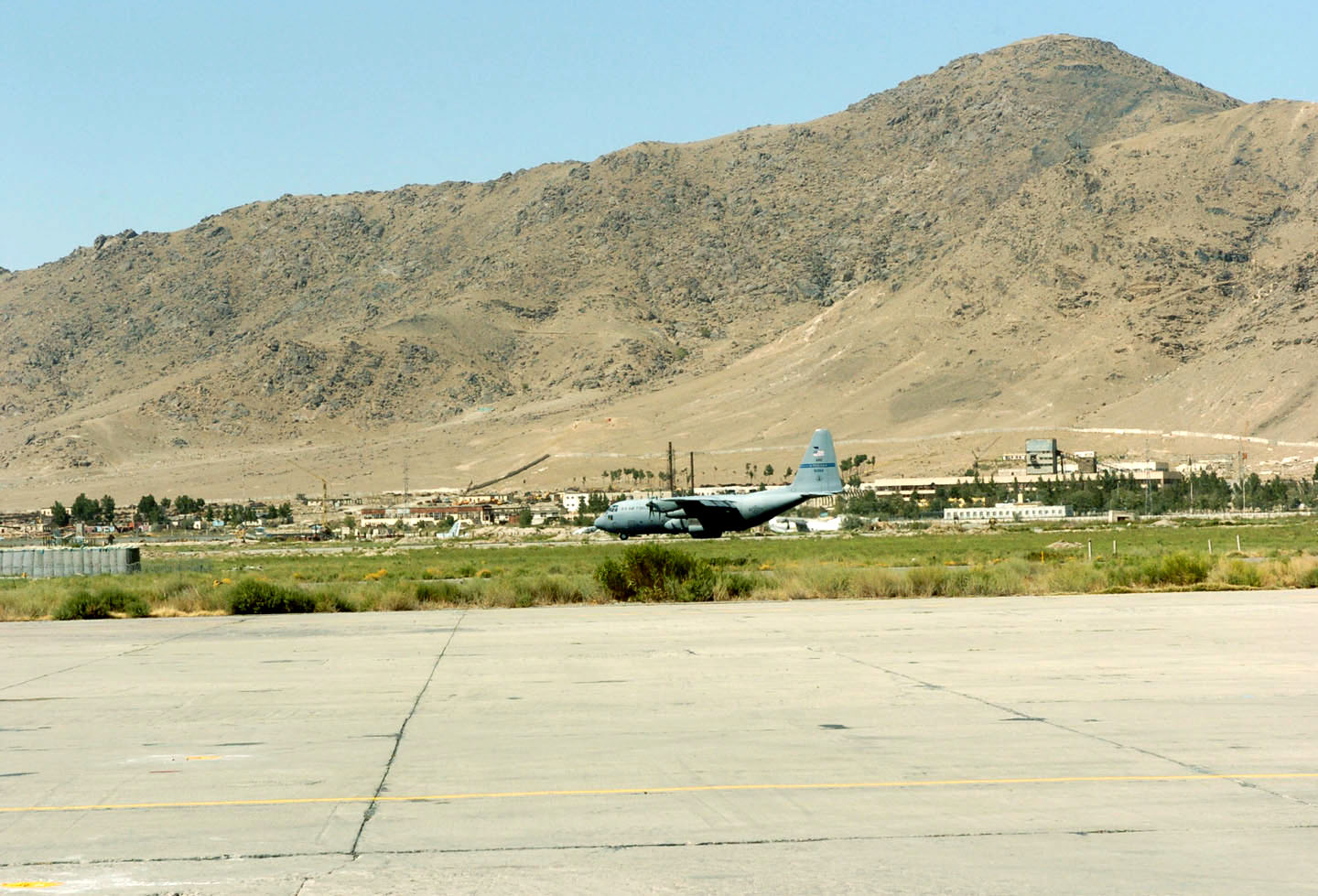 KABUL, Afghanistan -- A U.S. Air Force C-130 Hercules is about to take off from Kabul International Airport here Aug. 15 on its way to Shindand National Airport carrying Afghan soldiers. They are deploying to Shindand to retake control of government property seized as a result of factional fighting in the area. (U.S. Air Force photo by Master Sgt. Ann Bennett)